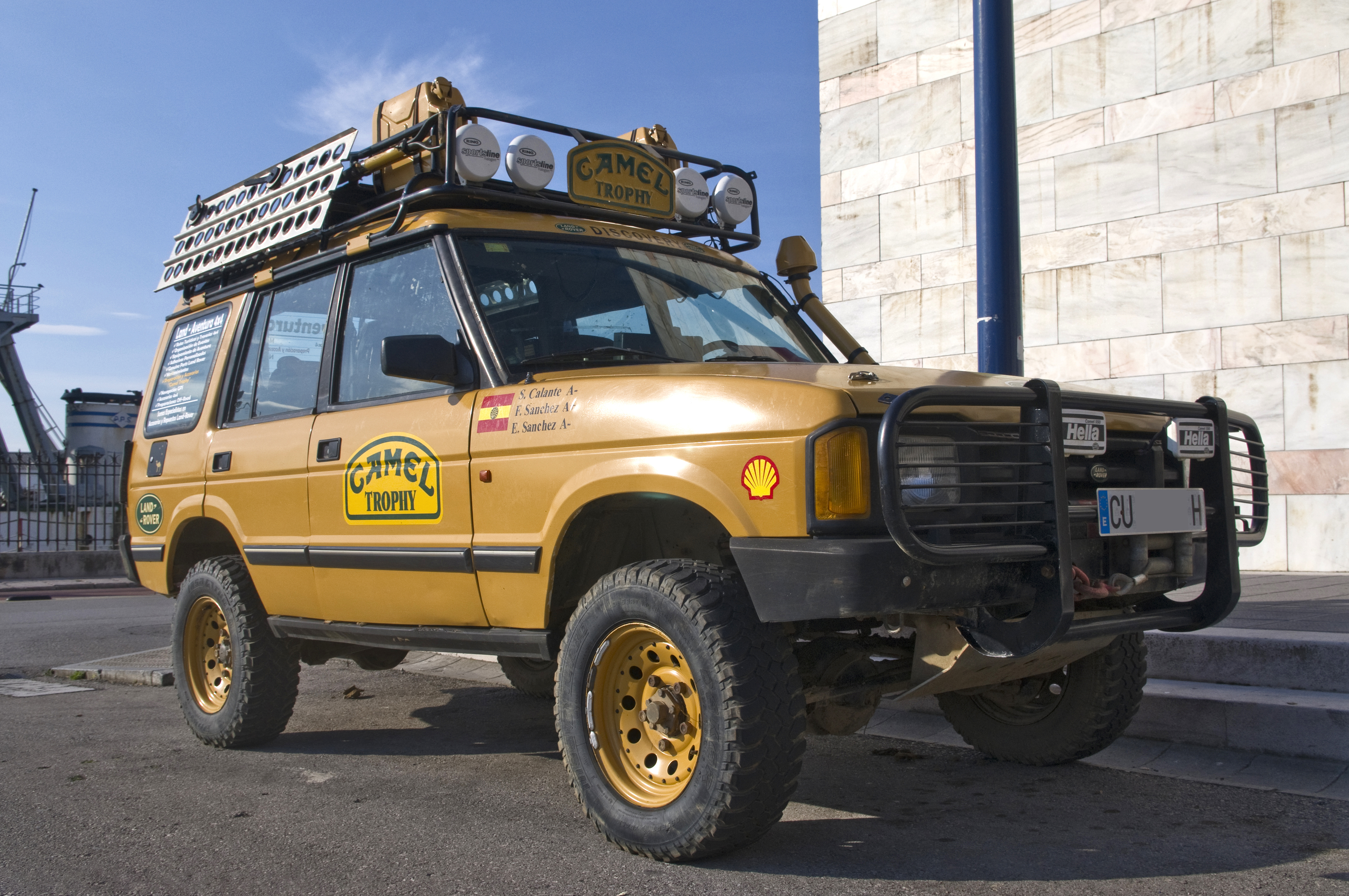 1993 Land Rover Discovery Series I Camel Trophy